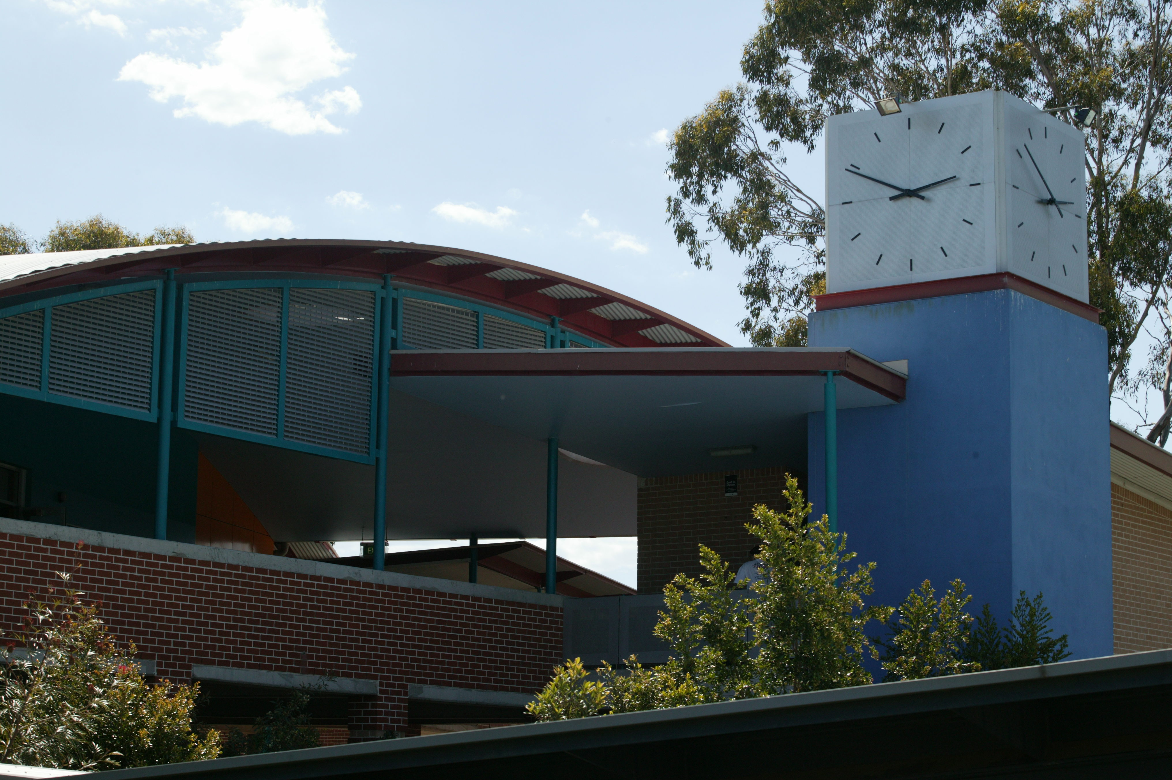 Wyndham College Clock Tower, in Quakers Hill, NSW, Australia